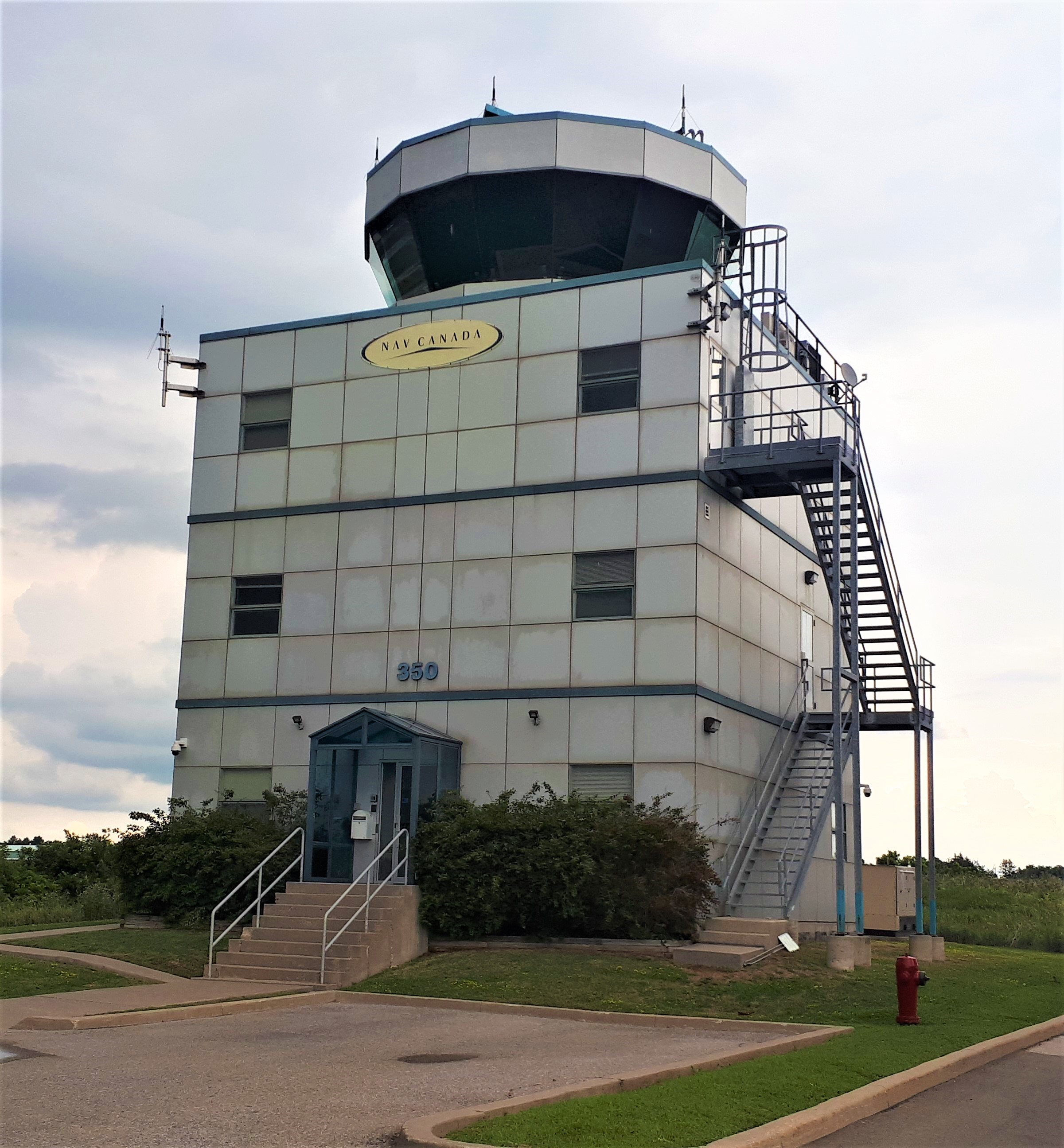 Buttonville Municipal Airport -Air Traffic Control Tower-Markham-Ontario